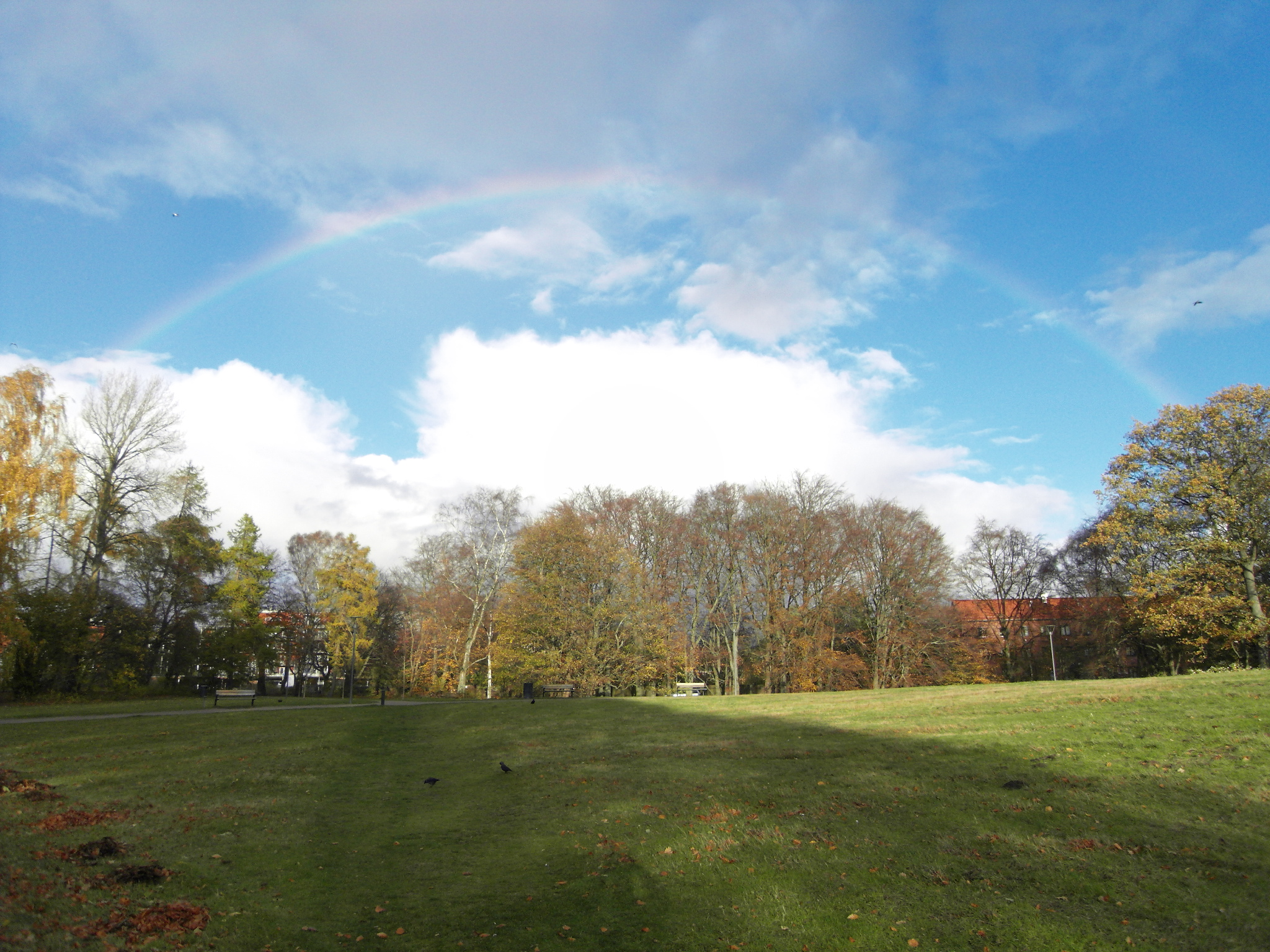 A rainbow seen from Beijer's Park in the city of Malmo. The picture is photographed 5 November 2013.